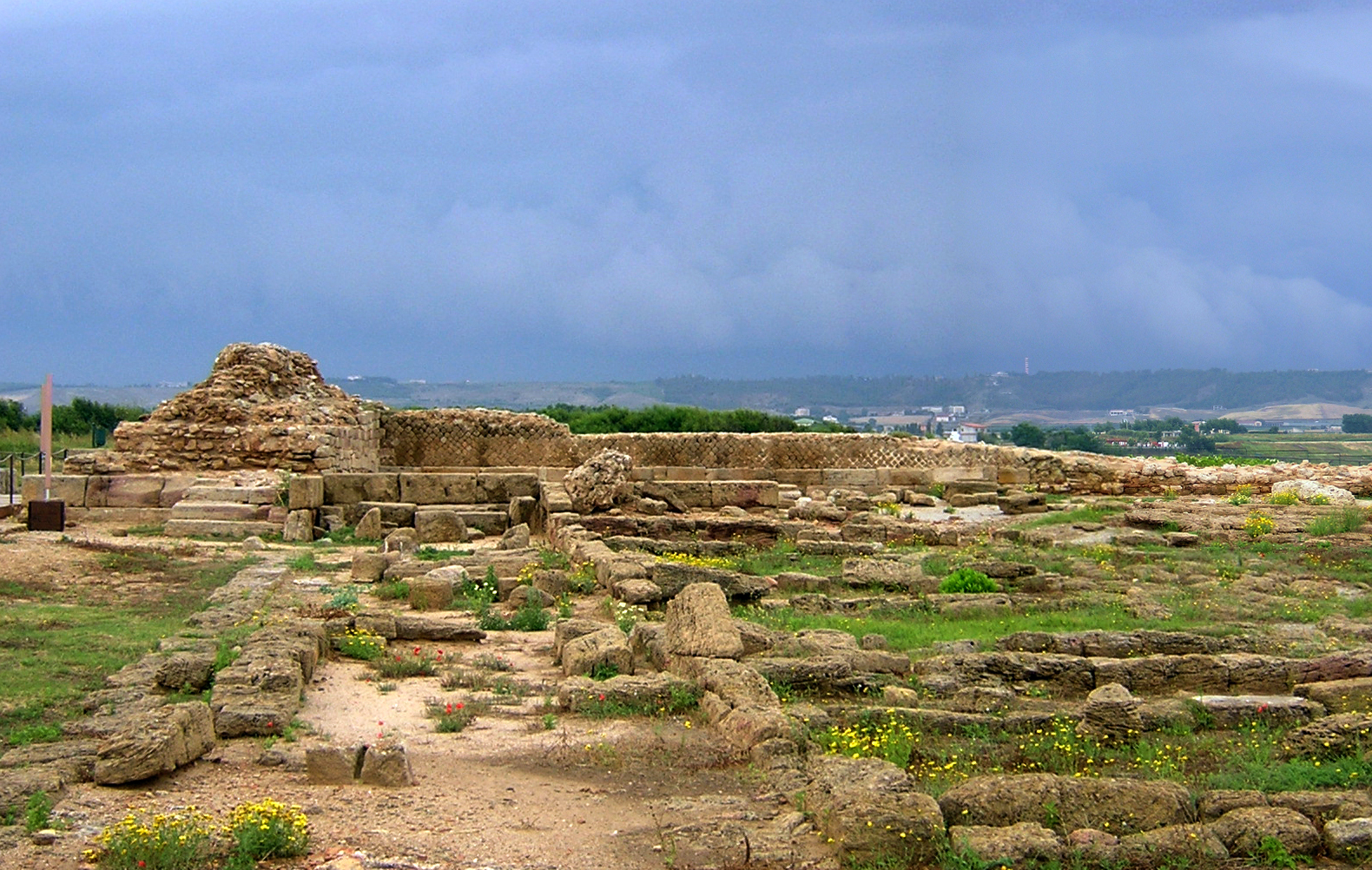 archeologic site of Capo Colonna, Calabria Italy